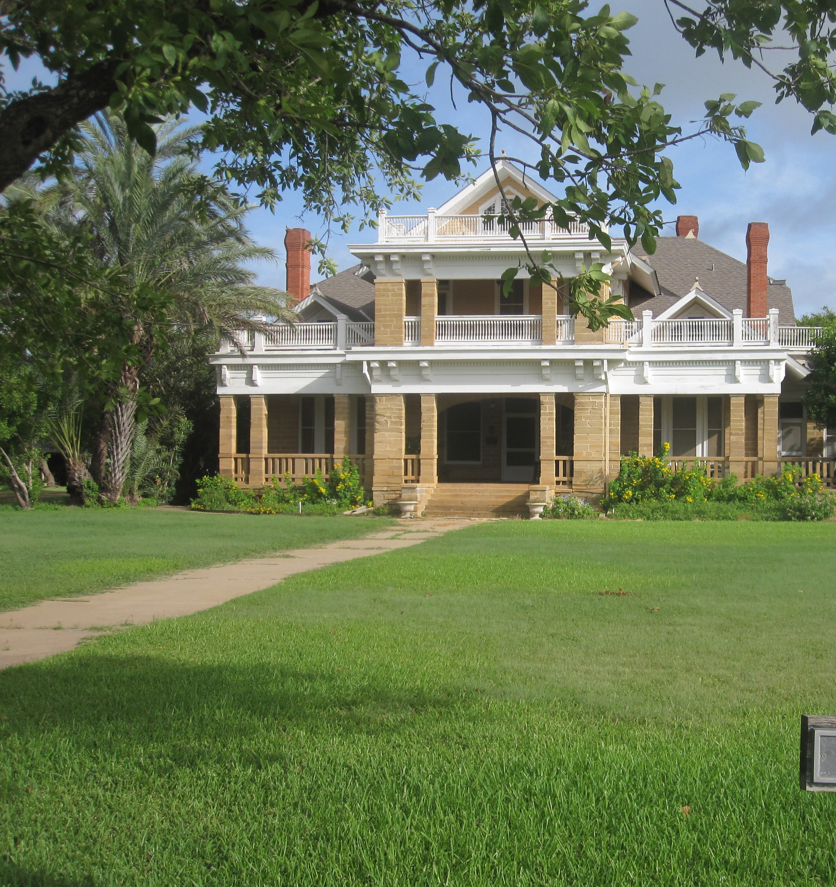 I took photo in Asherton, TX, with Canon camera.